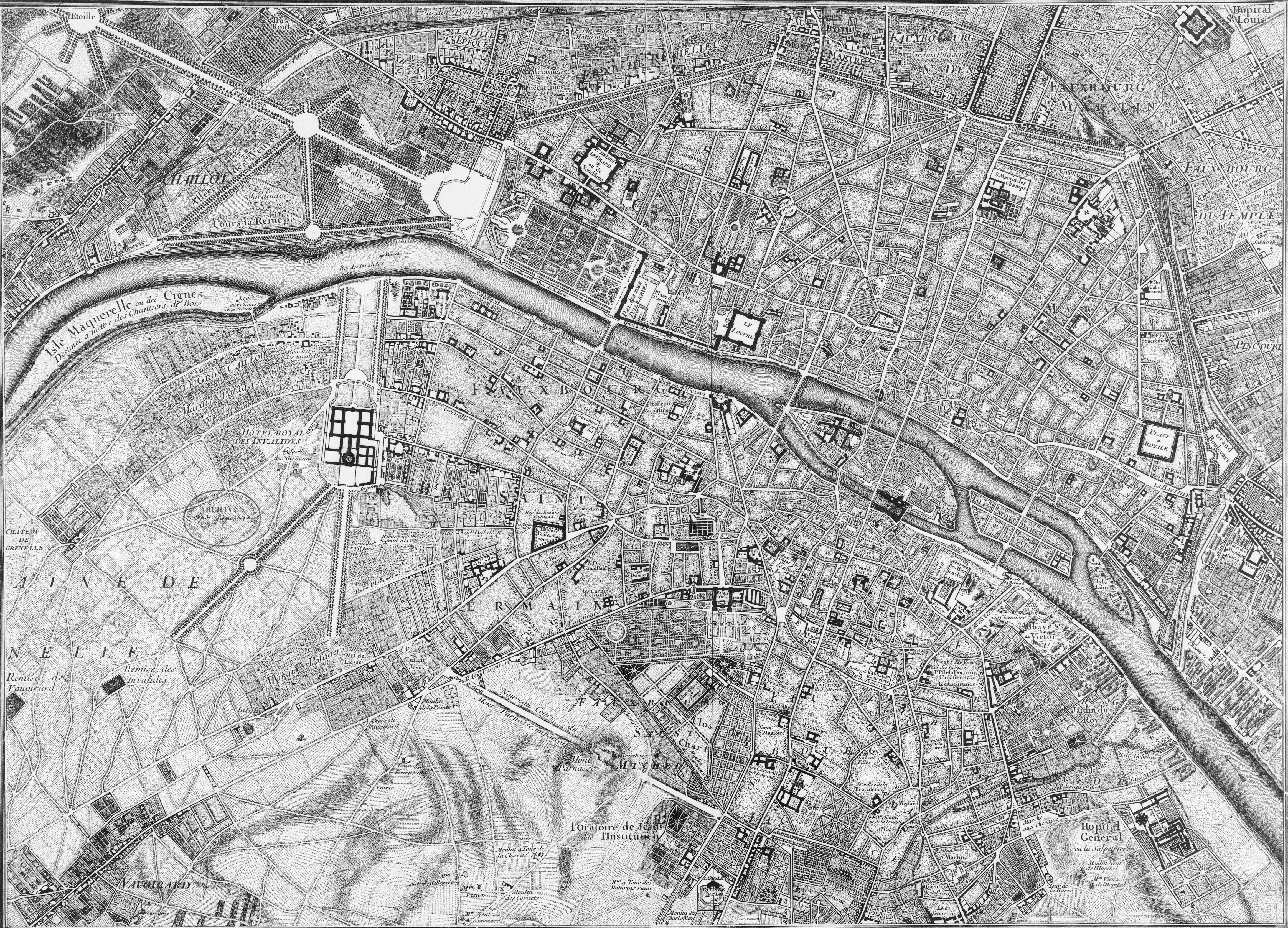 Map of Paris 1730